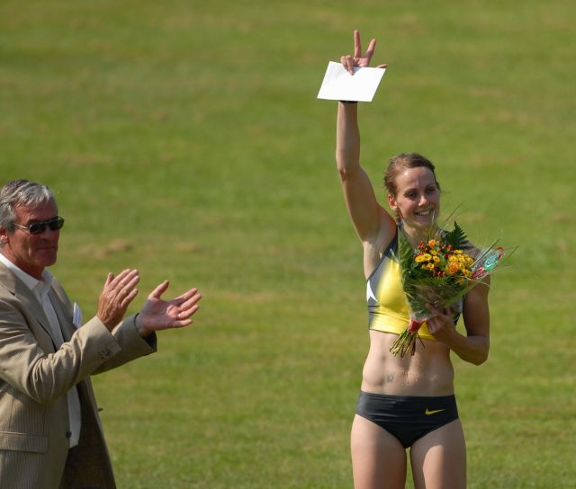 Kelly Sotherton during Keien Meeting 2007